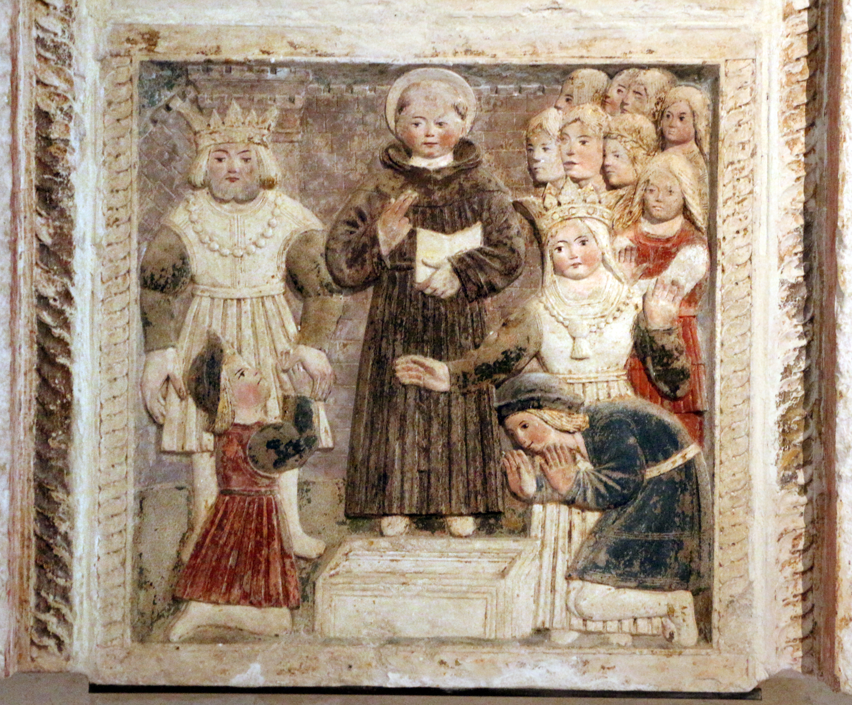 San Pietro Caveoso (Matera)